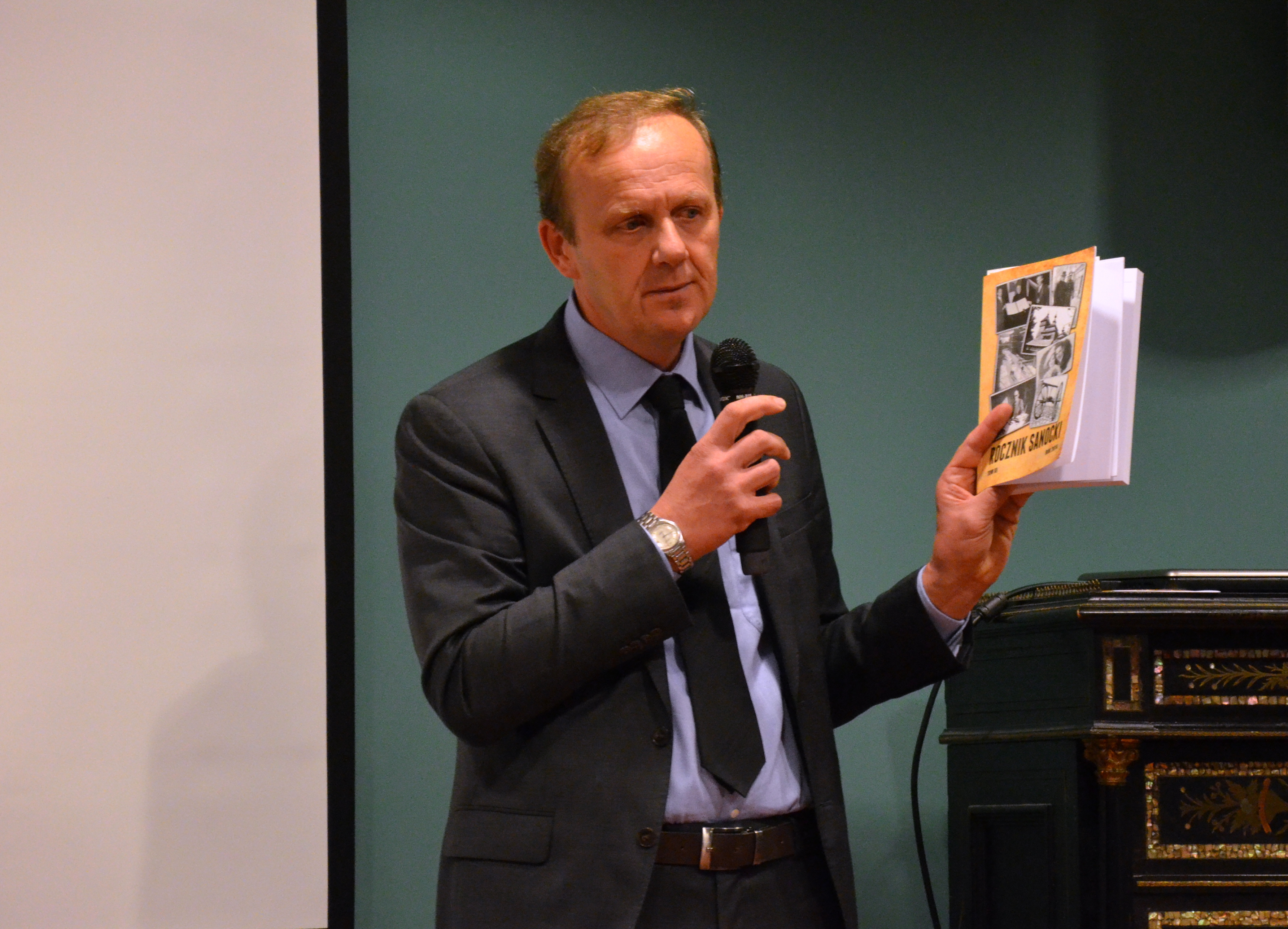 September 2014 in the European Union